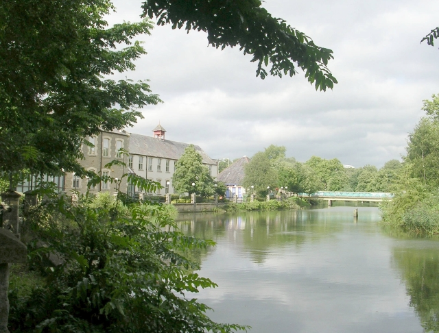 Back of Nestles - Bath Road